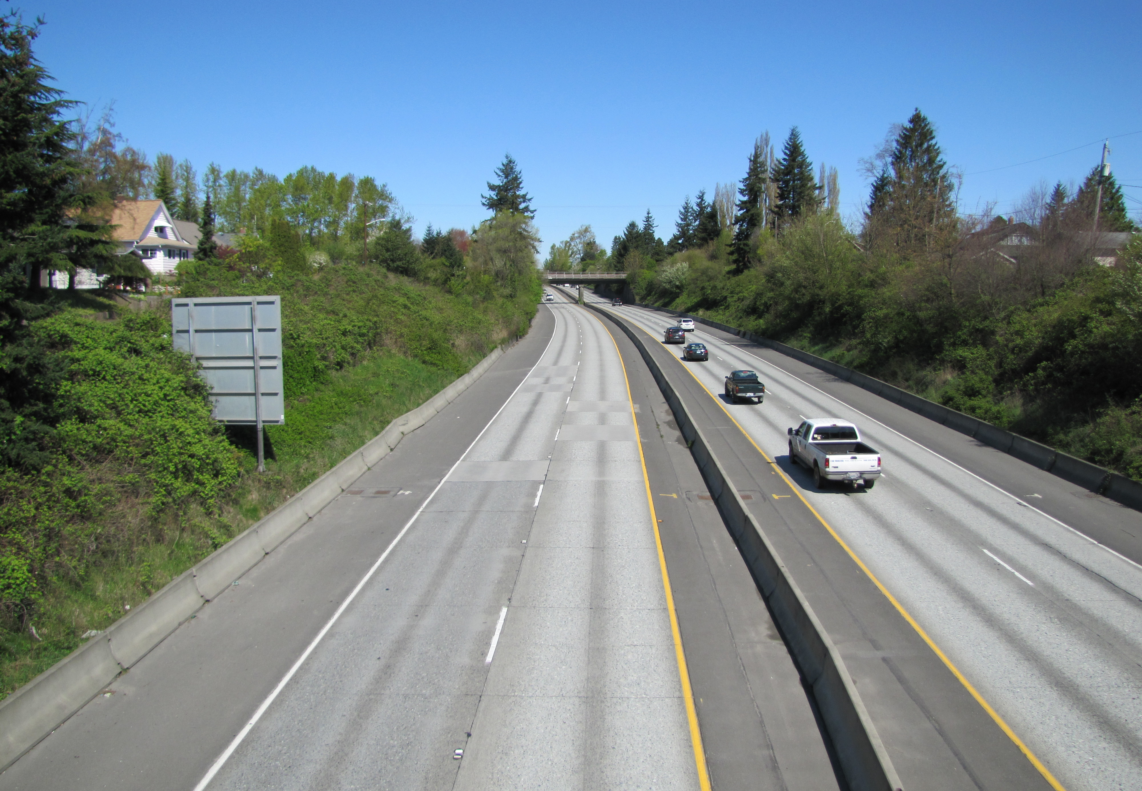 Bellingham, Washington, Interstate 5 view north from Alabama Street overpass. The overpass in the distance is a pedestrian bridge, part of the interurban trail.